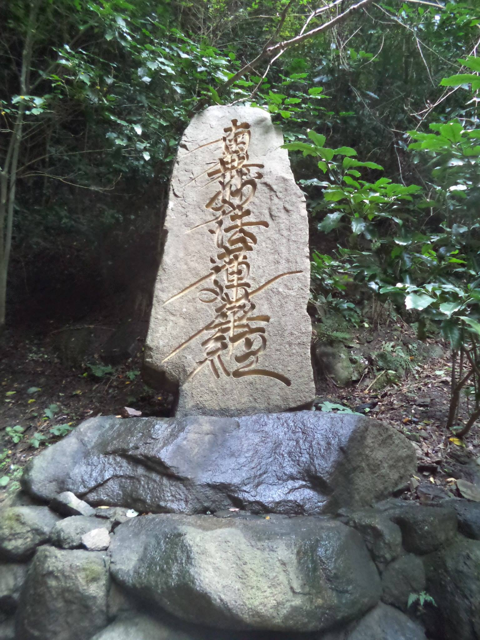 NamuMyoHoRenGeKyo Stone